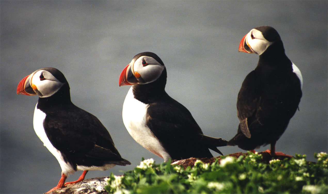 Description: Atlantic Puffin (Fratercula arctica) Source: picure taken by Hanno in 1996 on the island of Hornøya (Northern Norway) Licence: released under the GNU Free Documentation Licence and the cc-by-sa-2.5 Licence by the photographer